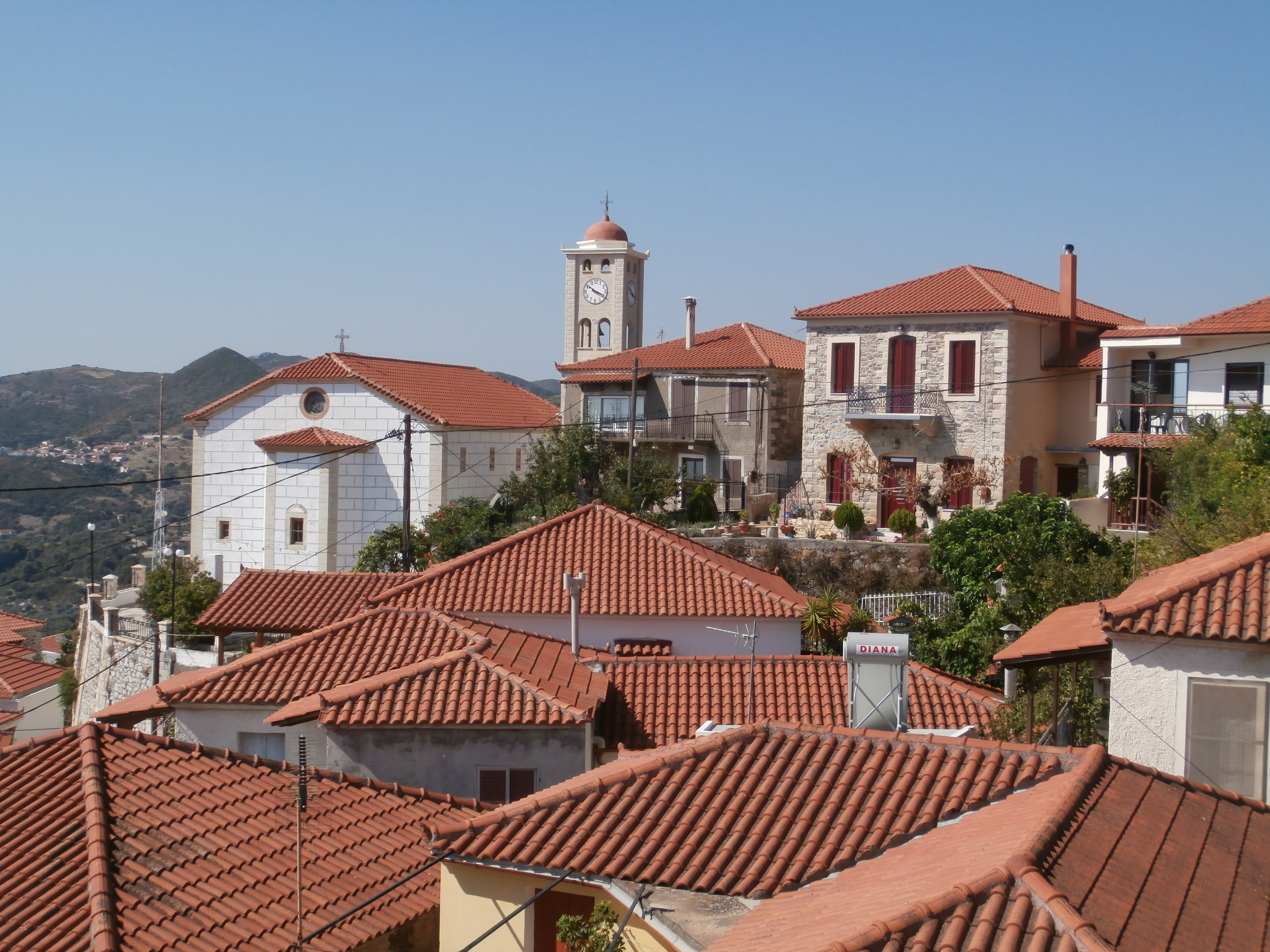 View of Enoria, Euboea